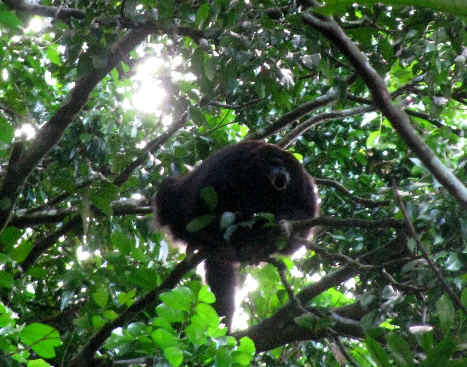 Mexican howler howling